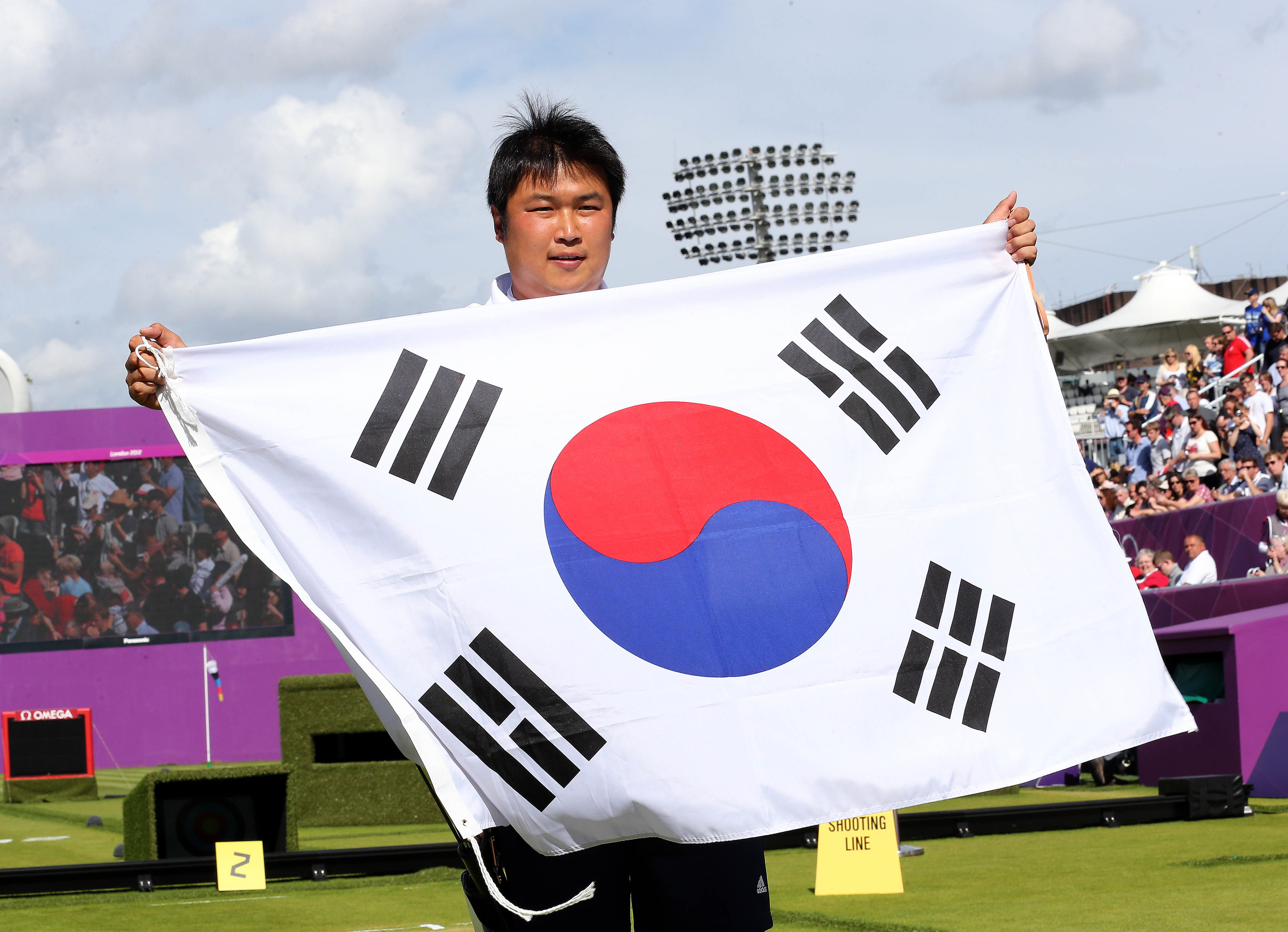 2012 London Olympic Games Korea Oh Jin Hyek won the gold medal in men's individual archery 2012. 08.04. hoto by Korean Olympic Committee Ministry of Culture, Sports and Tourism Korean Culture and Information Service 2012 런던 올림픽 한국 남자 양궁 개인전 오진혁 금메달 획득 사진제공 - 대한체육회 문화체육관광부 해외문화홍보원